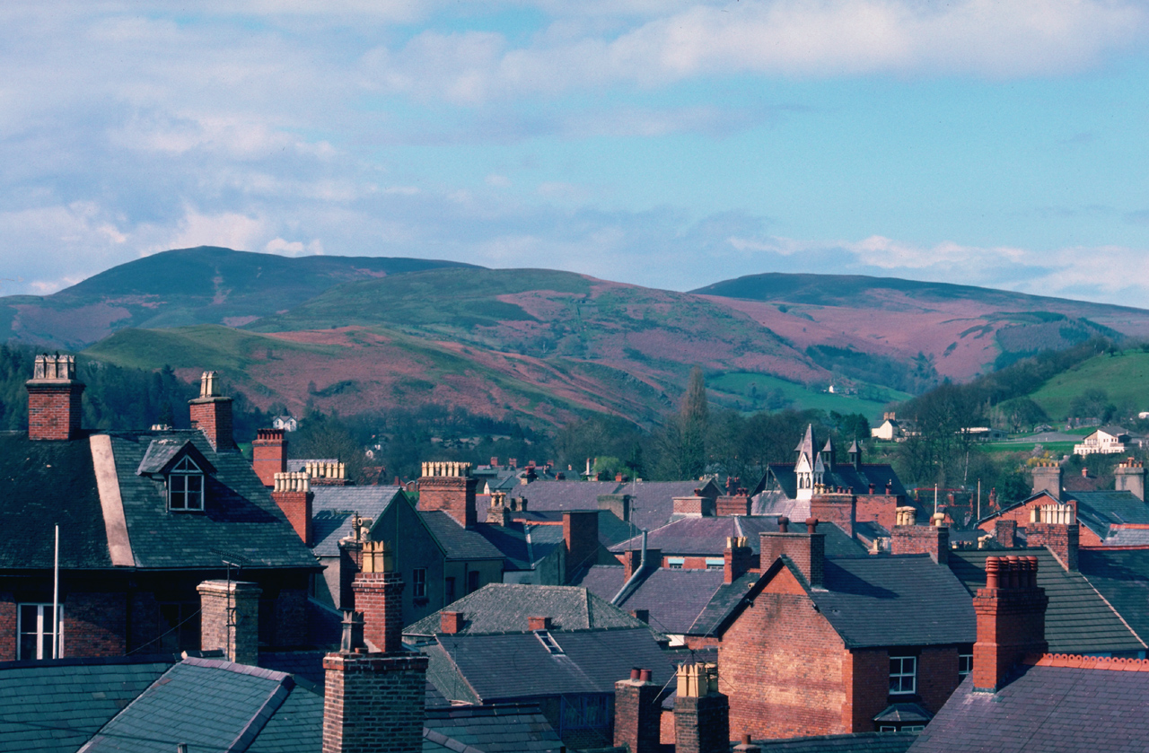 Village of Llangollen in North Wales/UK, view over the town